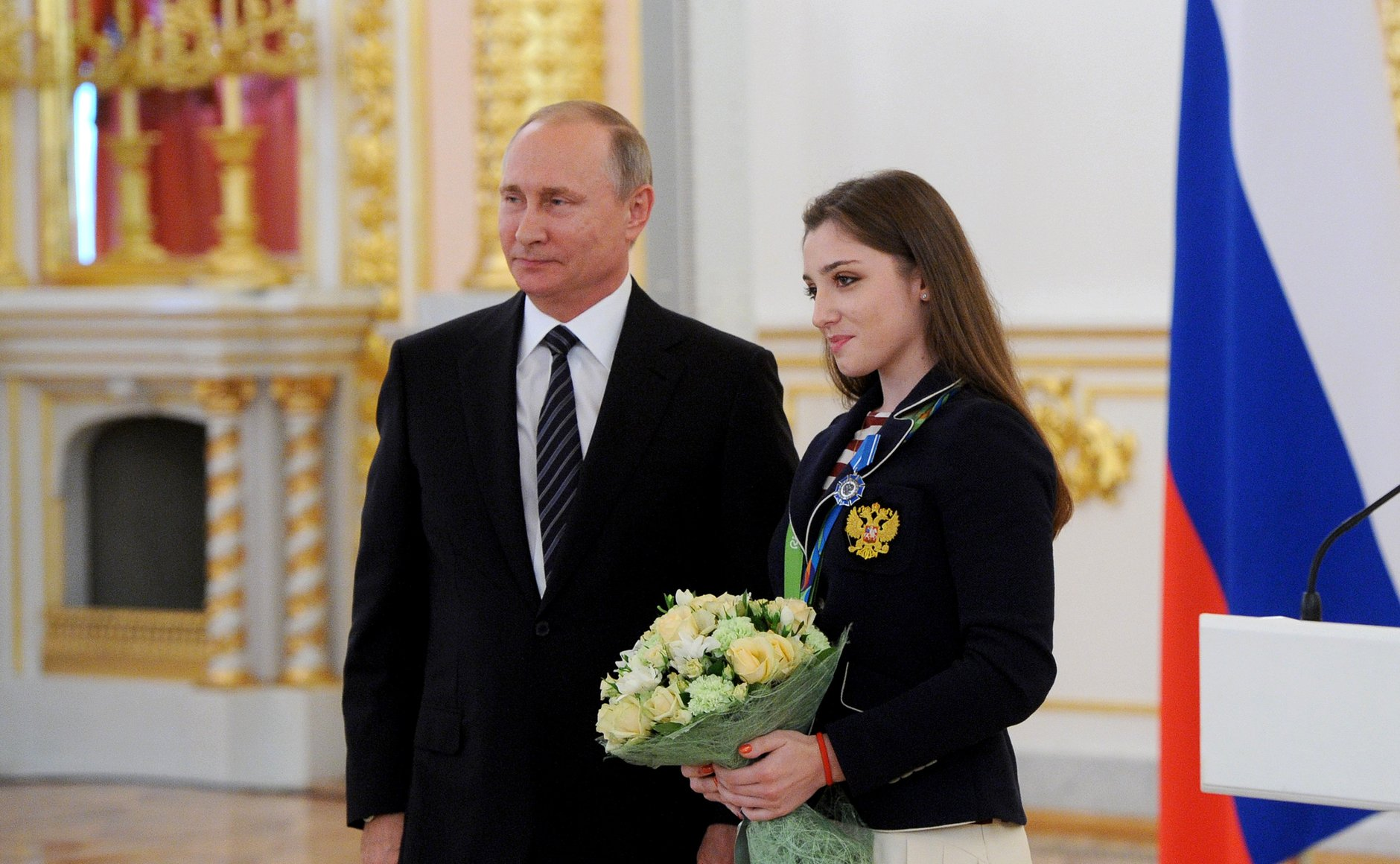 Vladimir Putin presented state awards to the Russian athletes who won gold medals at the 2016 Olympic Games in Rio de Janeiro (Brazil).